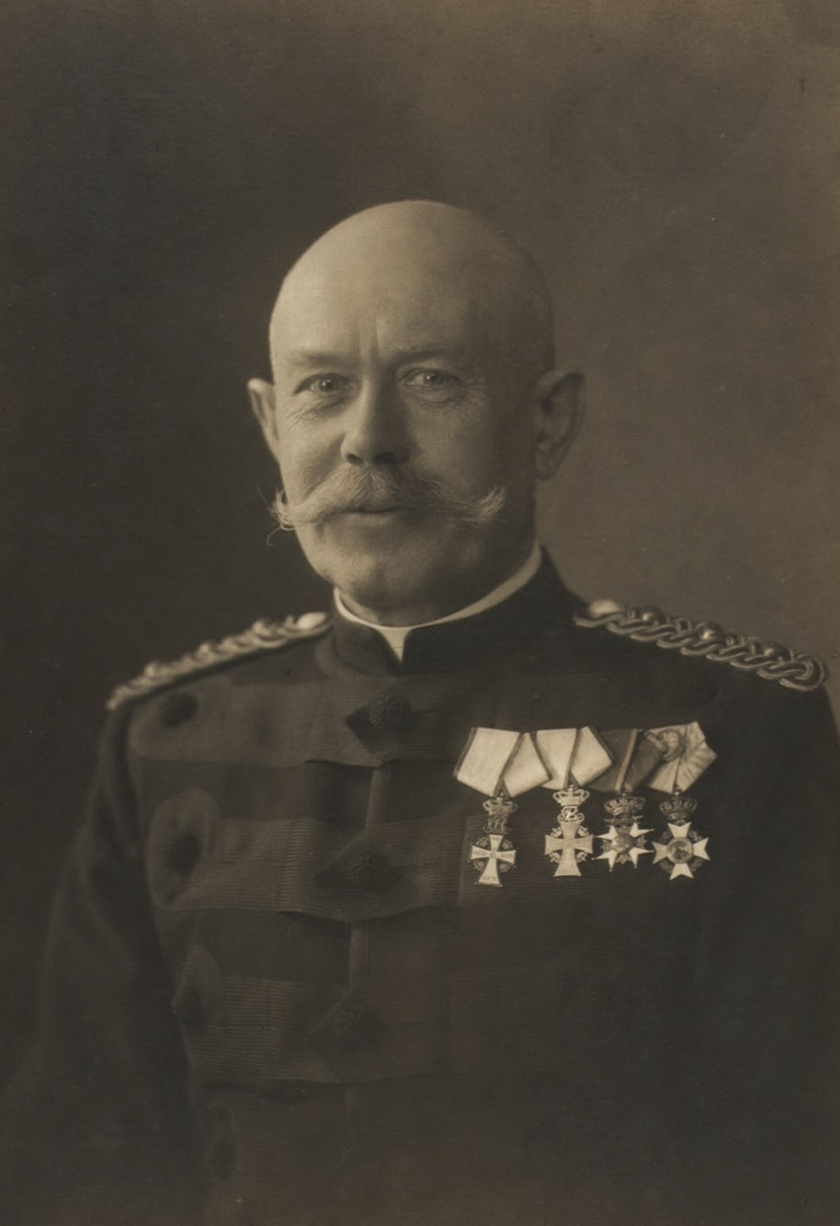 Christian Blangstrup (1857-1926), Danish officer and editor